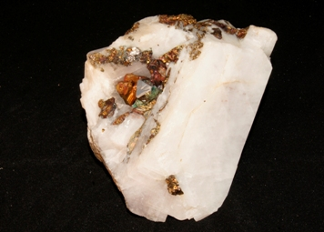 carrollite crystal on calcite and native copper Locality: Congo (Locality at